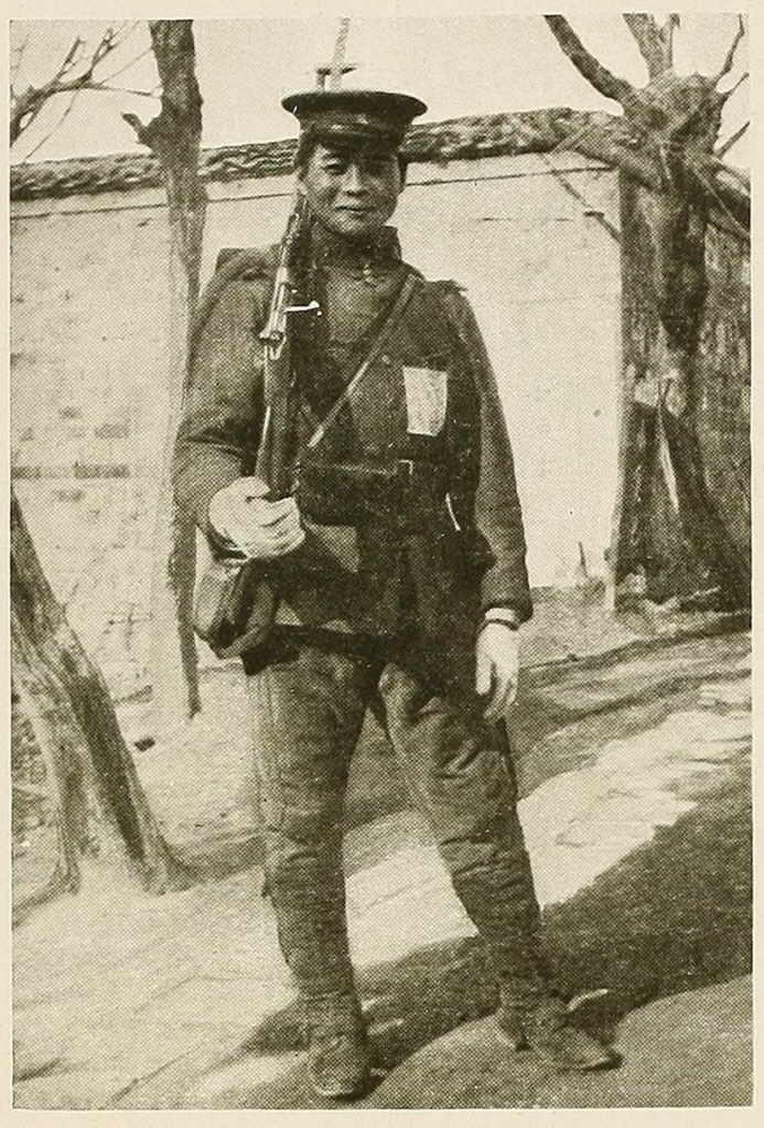 “A Chinese in France” - from the book Fighting America's fight.